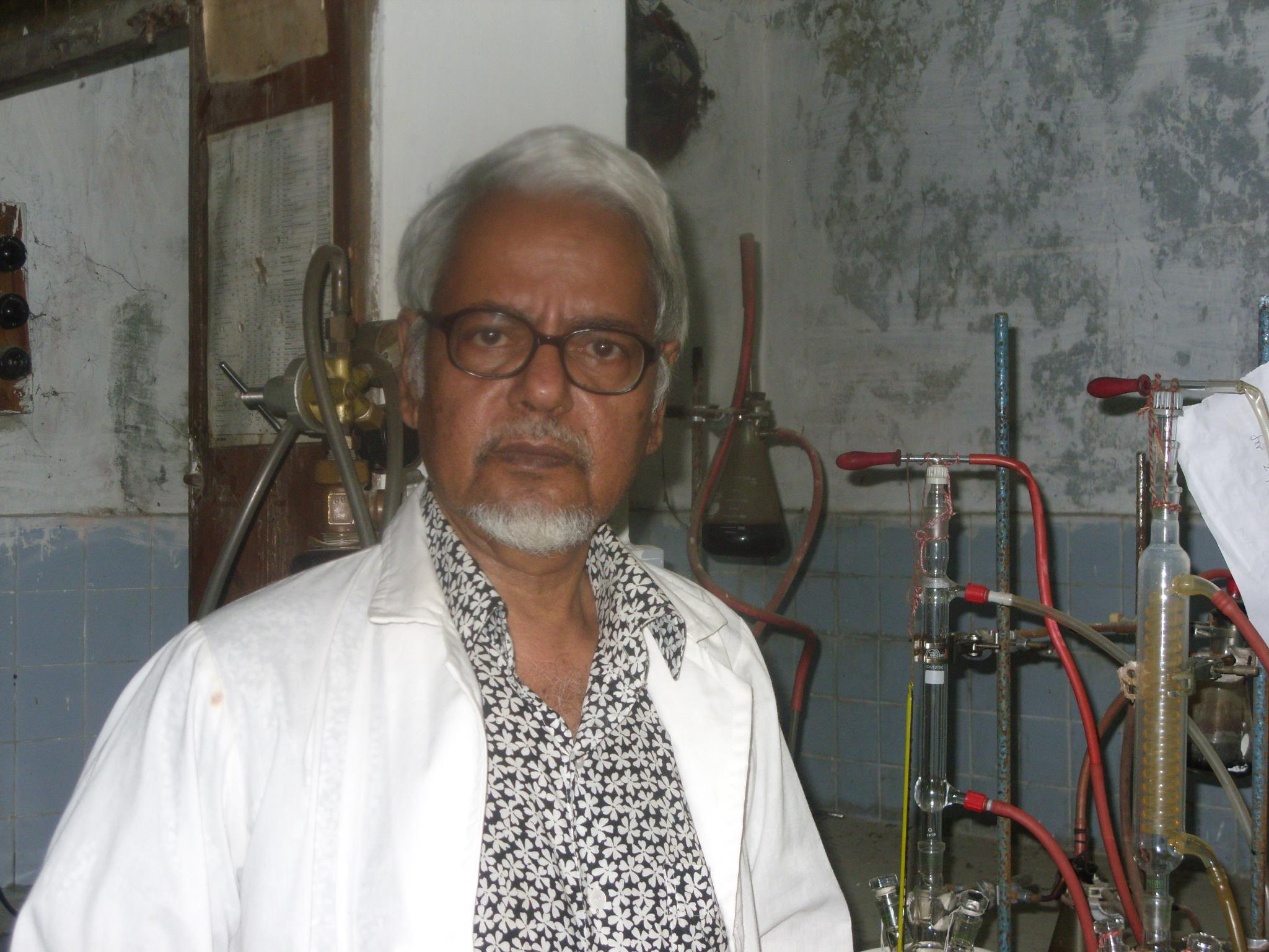 image of Professor Syed Safiullah